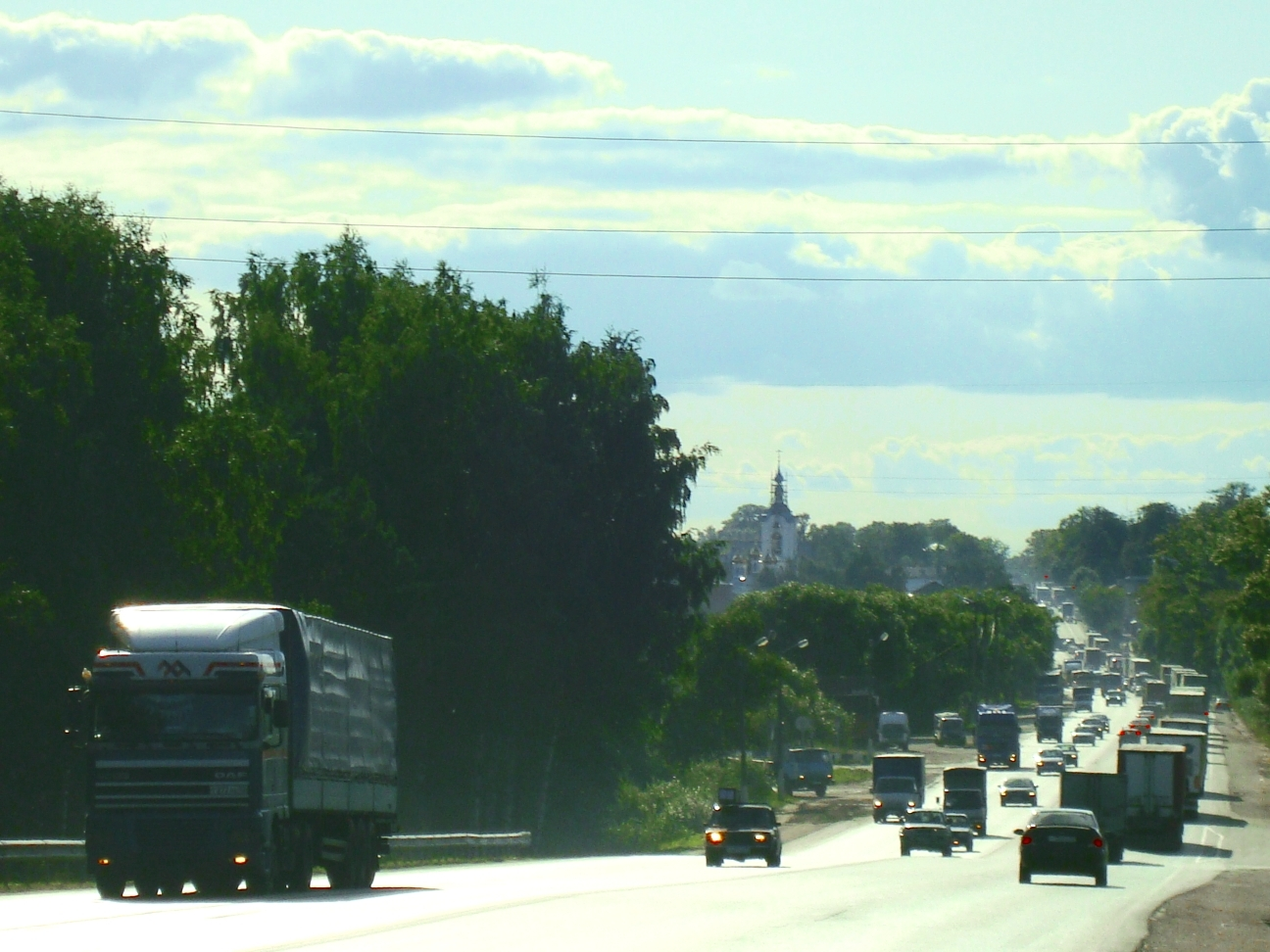 E22 in Pokrov town, Russia